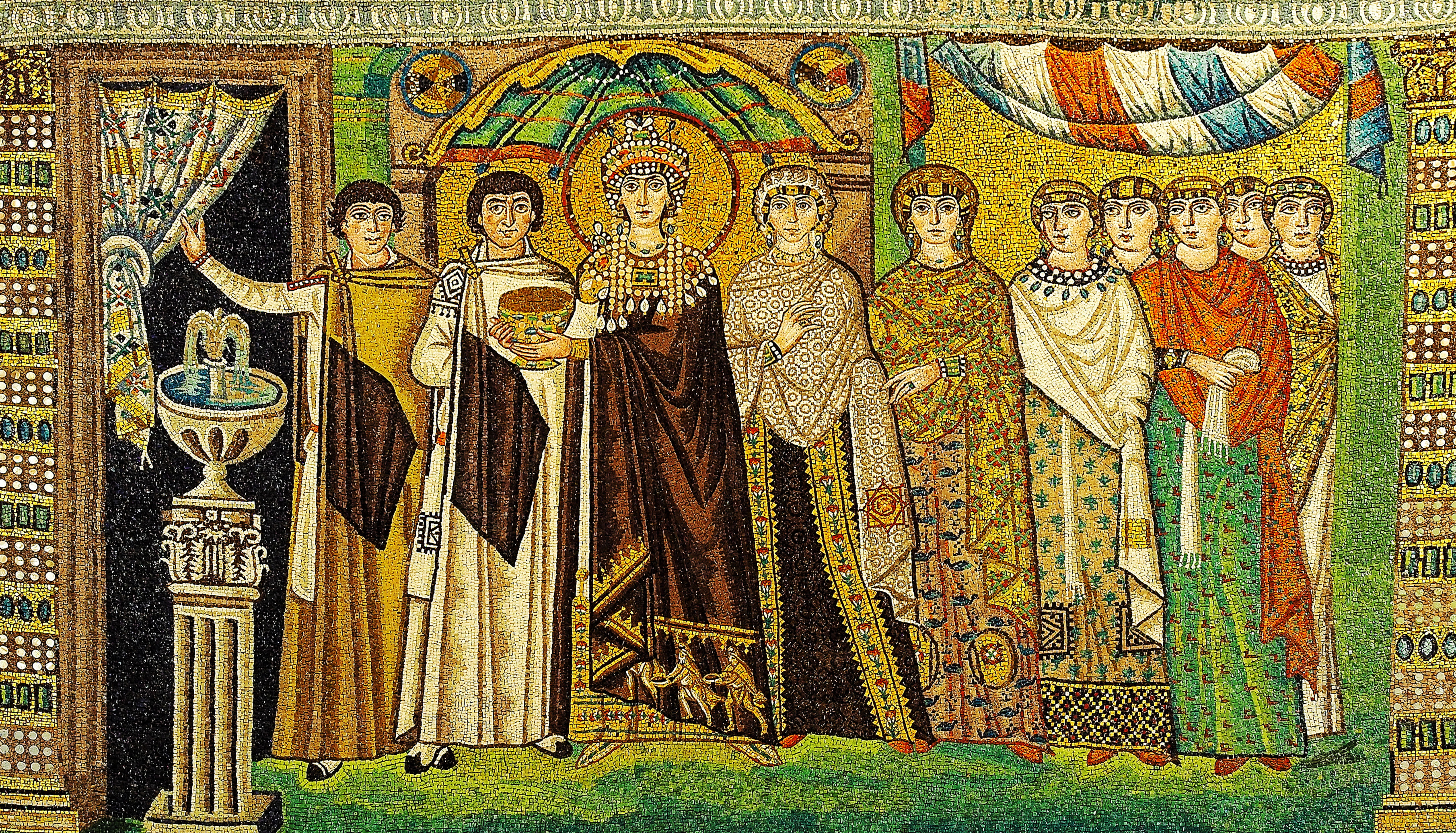 Mosaic of Theodora - Basilica of San Vitale (built A.D. 547), Italy. UNESCO World Heritage site. This photograph was taken with an Olympus E-P5